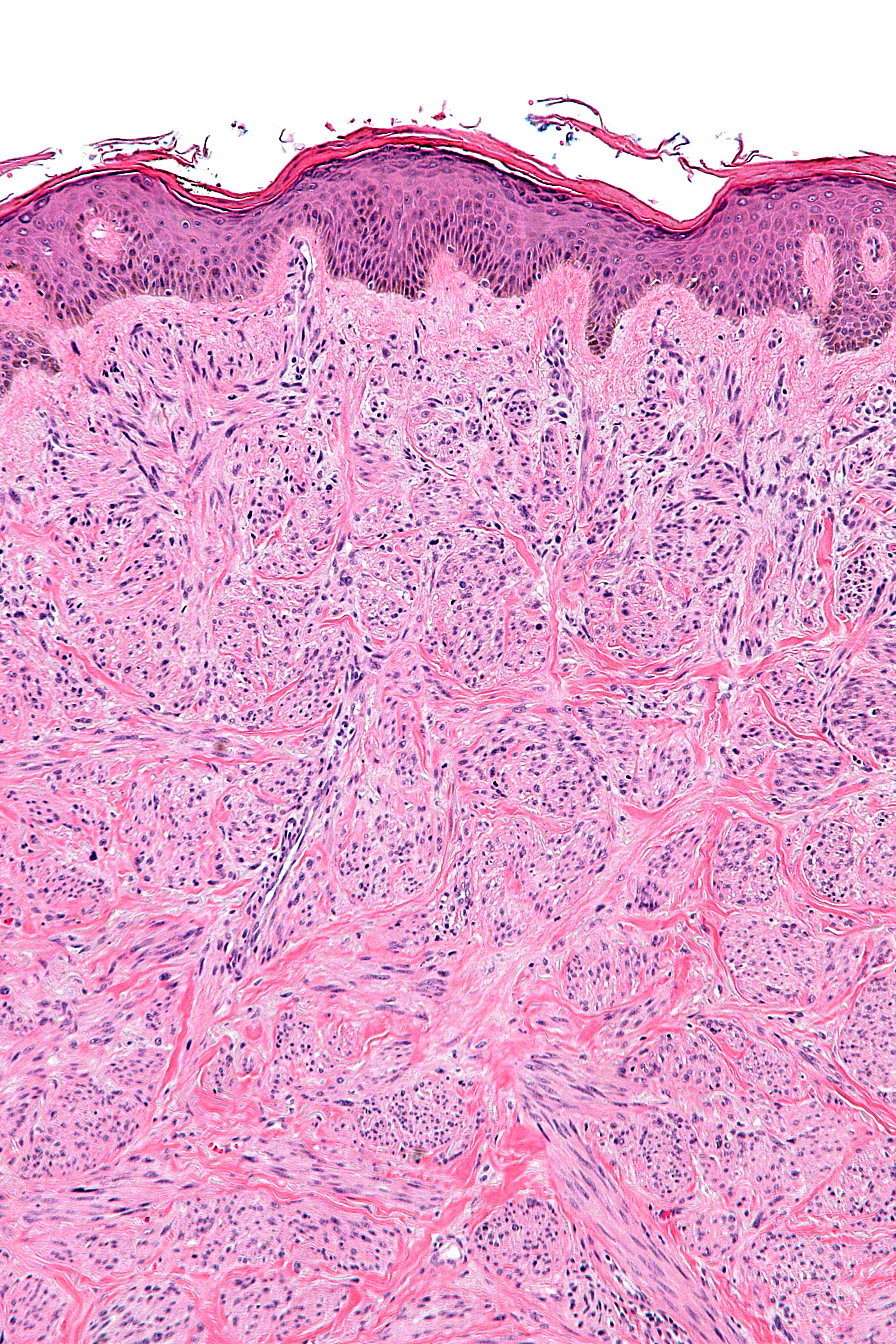 Intermediate magnification micrograph of a cutaneous leiomyosarcoma. H&E stain. Related images Intermed. mag. Intermed. mag. High mag. Very high mag.